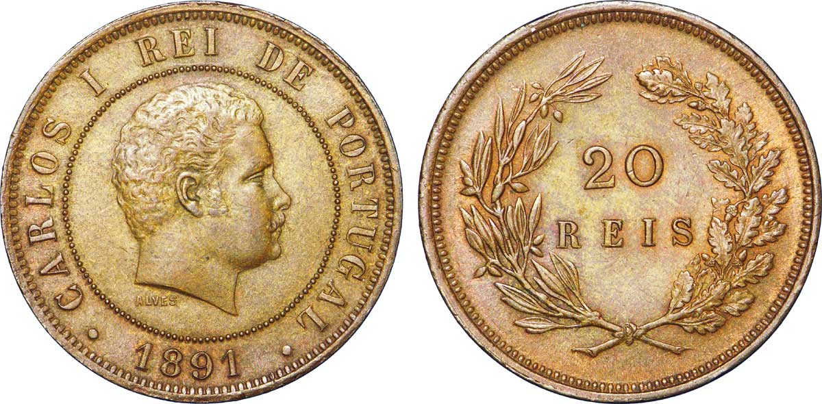 20 Réis à l'effigie de Charles Ier,1891